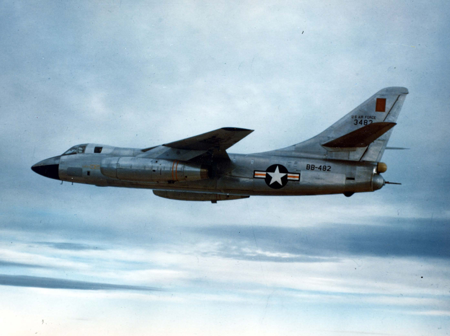 Douglas B-66B Destroyer in flight (SN 53-482)